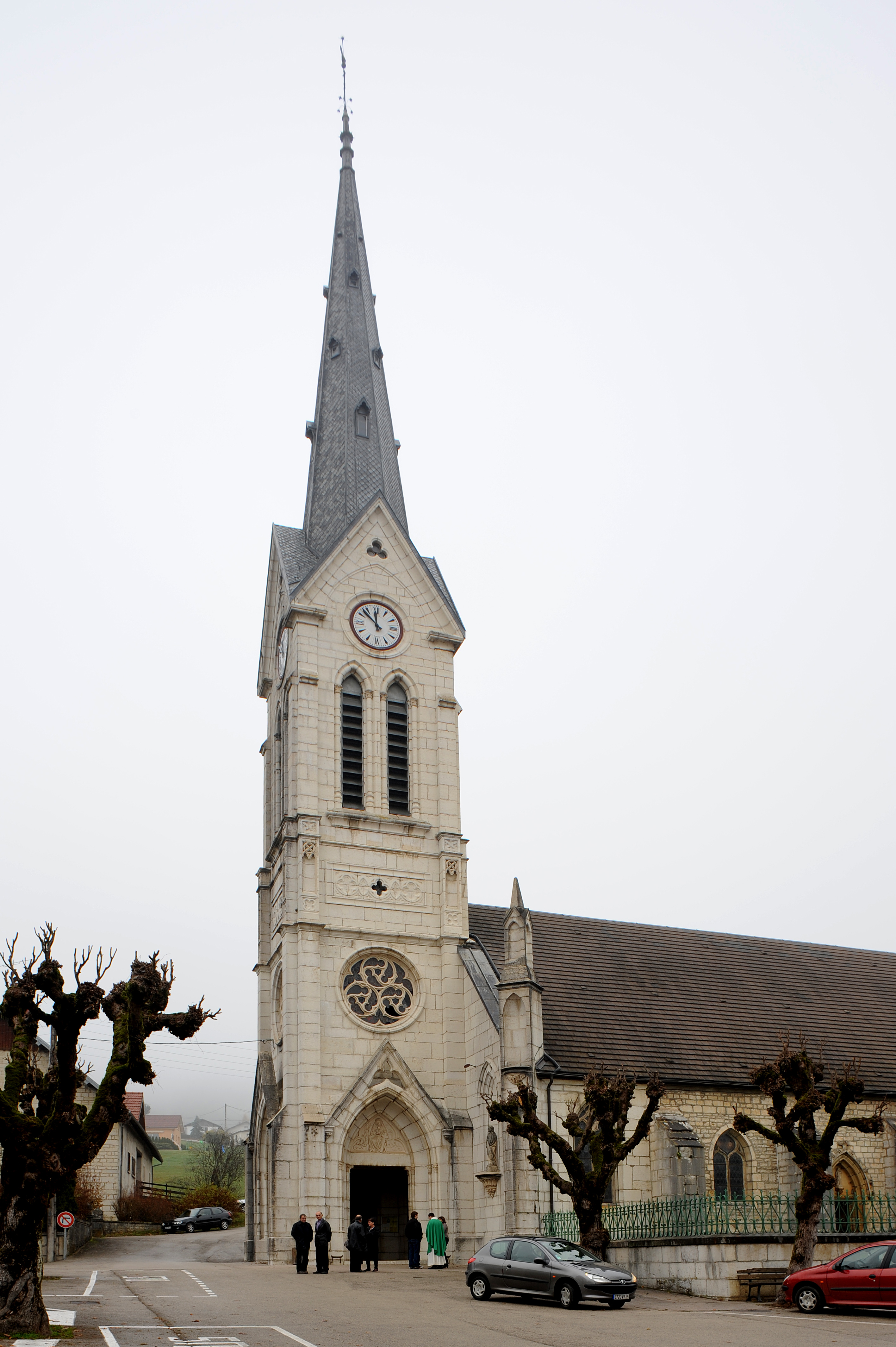 Church of Orchamps-Vennes; department Doubs, France.